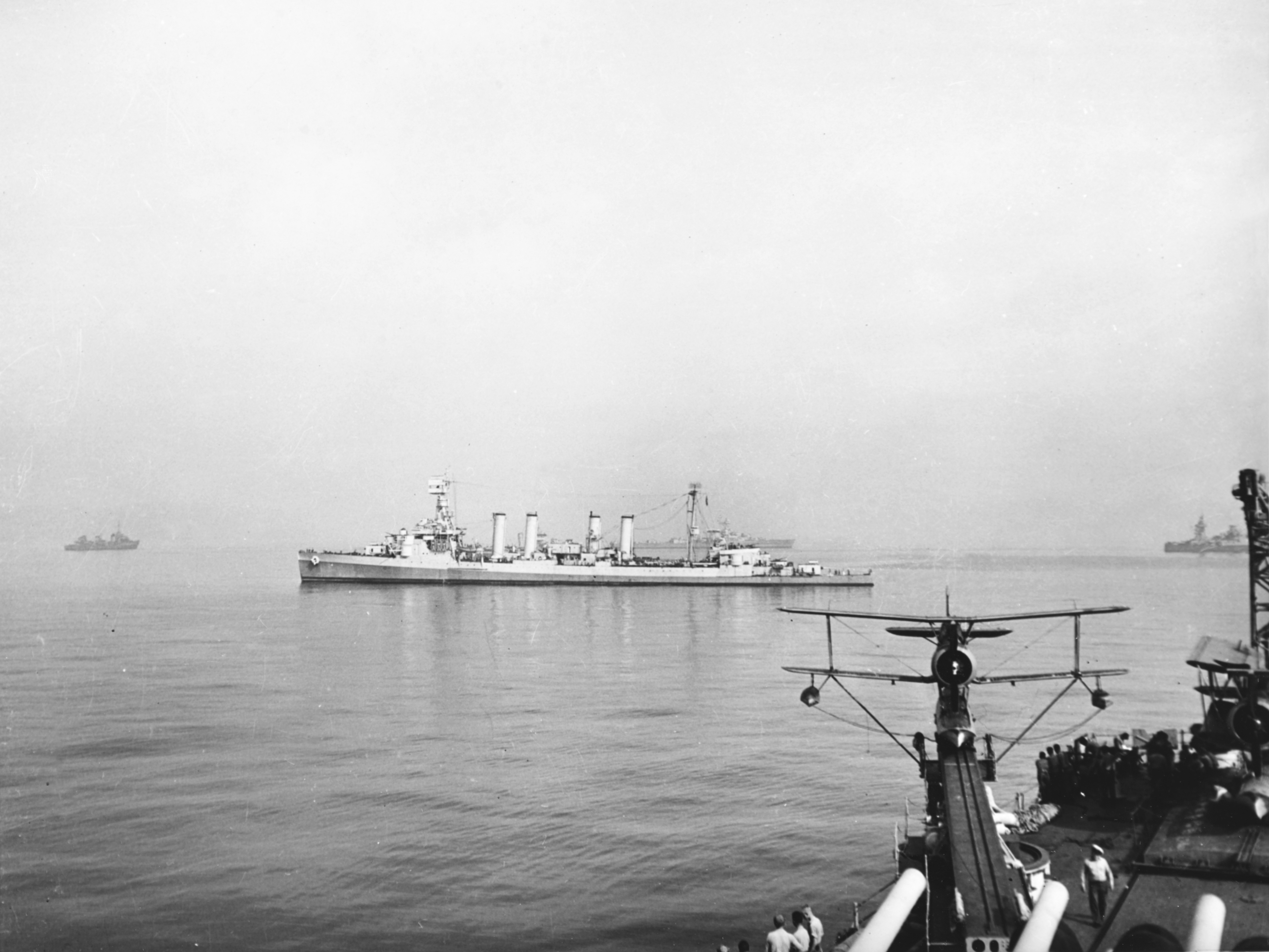 The U.S. Navy light cruiser USS Omaha (CL-4) photographed from USS Philadelphia (CL-41), during the landings in Southern France, August 1944. In the distance are (from left to right): a French Navy destroyer, a French light cruiser, and the heavy cruiser USS Augusta (CA-31). Note the Curtiss SOC seaplanes on Philadelphia's starboard catapult and hangar hatch cover.